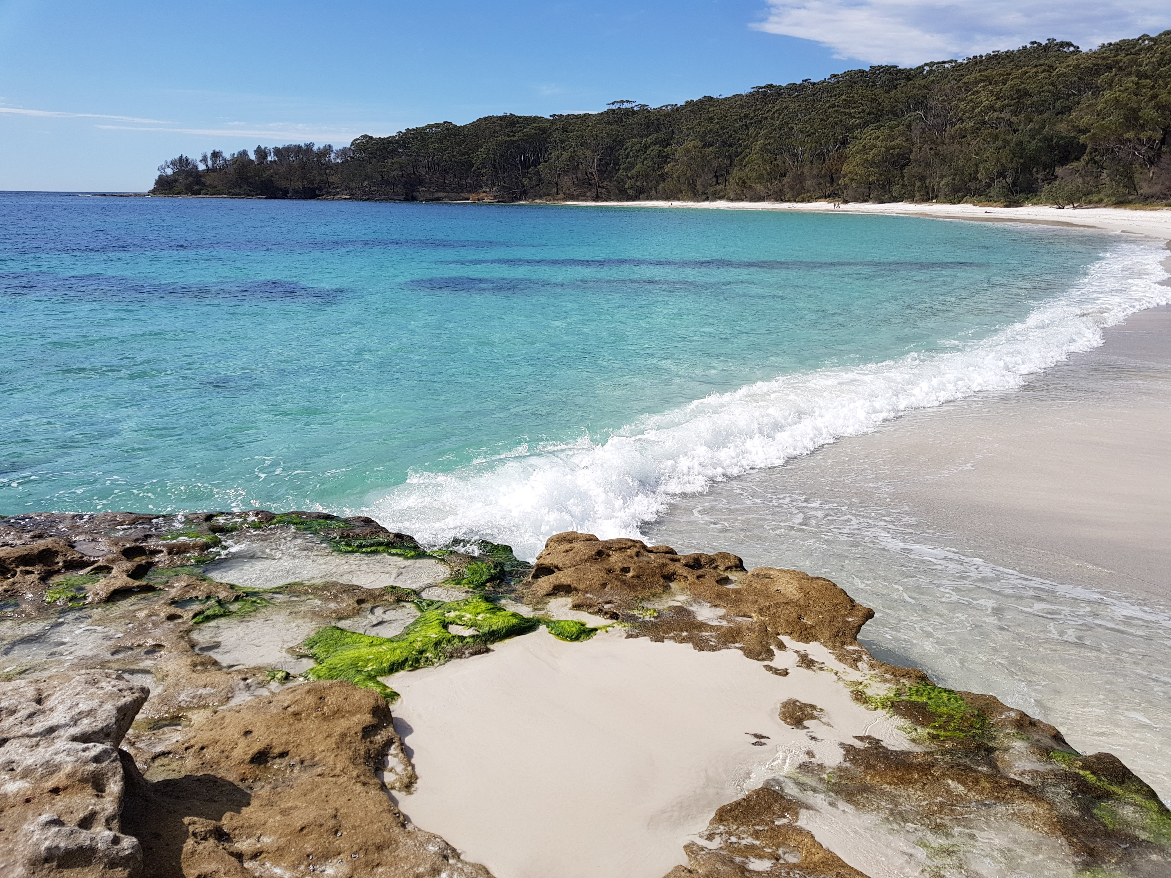 Jervis Bay, NSW